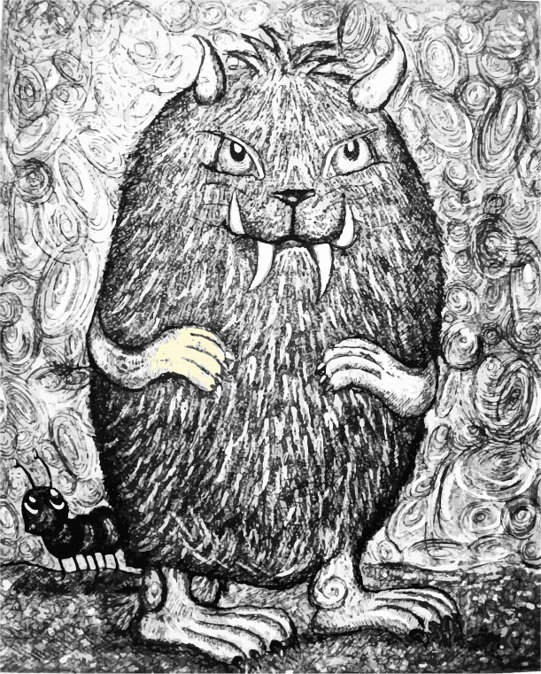 A Little Ant and a Big Ugly Beast. After a Slovene folk tale from Resia (northeastern Italy): ‘A Little Ant (rusica) Chases a Big Ugly Beast (grdinica) out of the Fox's Little House’. Etching and aquatint, digitalised, 2017.